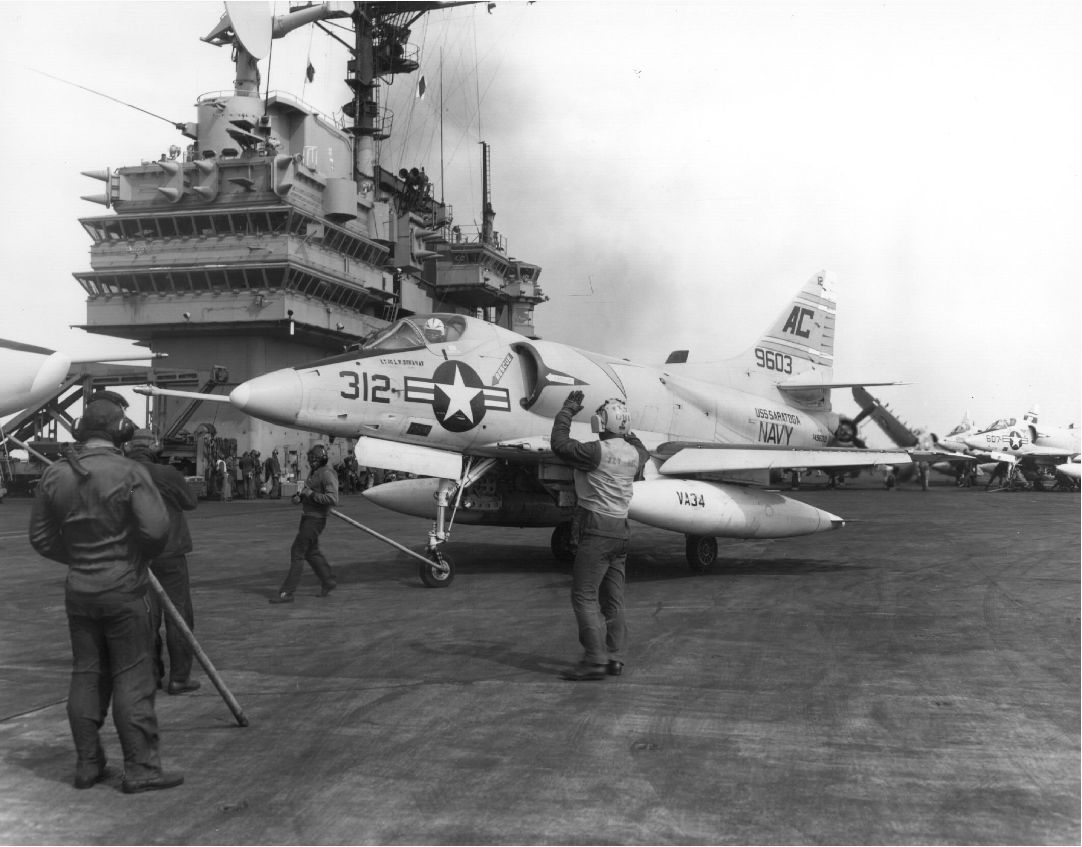 U.S. Navy Douglas A-4C Skyhawk (BuNo 149603) of attack squadron VA-34 Blue Blasters, Carrier Air Wing 3 (CVW-3), taxies into position for launching aboard USS Saratoga (CVA-60), 1963-1966.From May to December 1967 VA-34 was assigned to CVW-10 aboard the USS Intrepid (CVS-11) for a deployment to Vietnam. This A-4C 149603 (side number AK 312) was shot down on 9 July 1967 by a North Vietnamese surface-to-air missile. The pilot, Lieutenant Commander E. A. Martin, successfully ejected and became Prisoner of War.